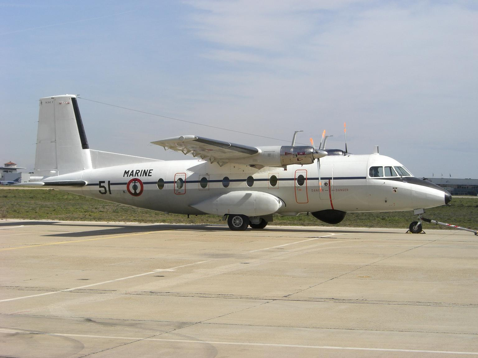 Picture showing the Nord-Aviation N262E number 51 at the french navy base Nîmes-Garons